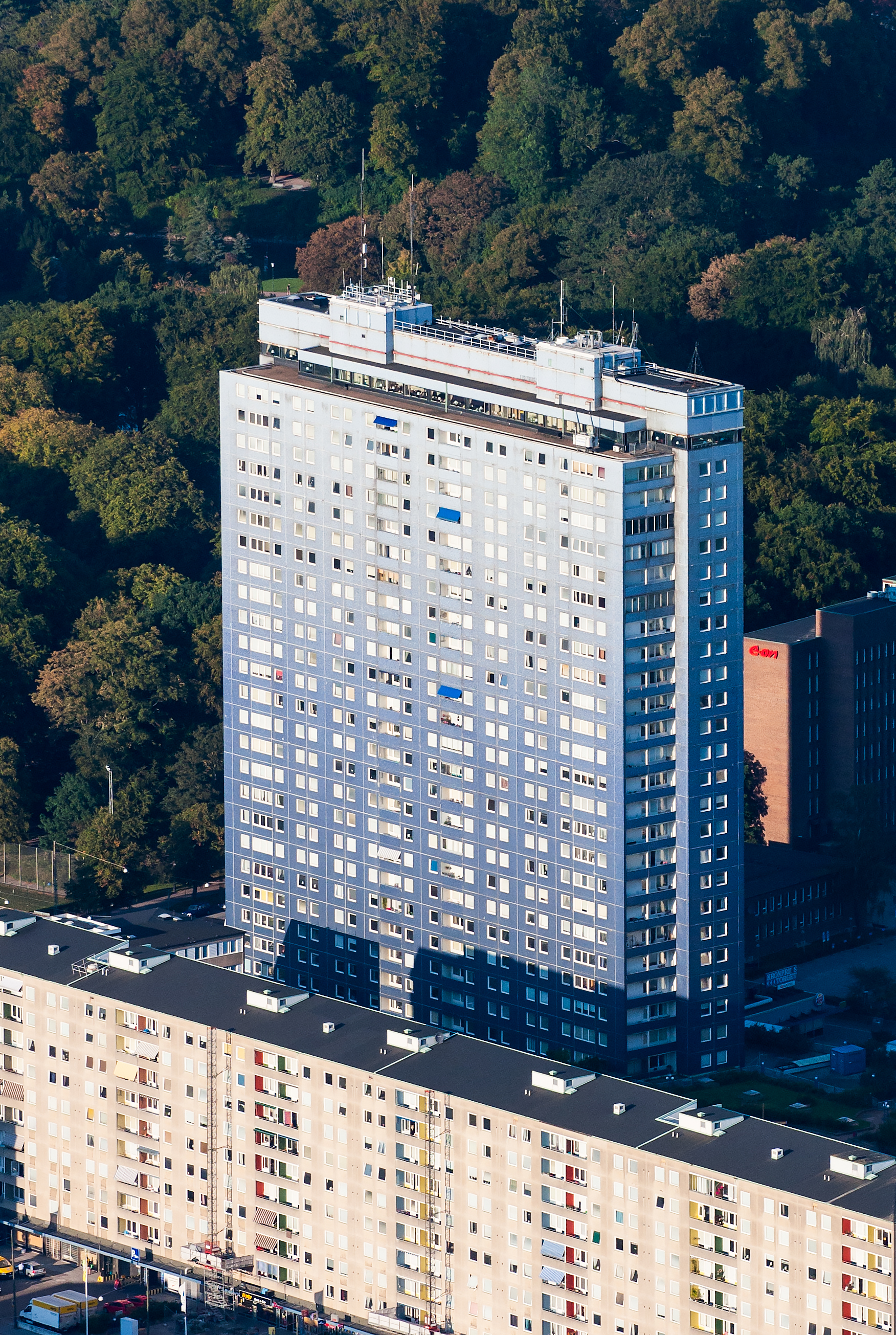 Skyscraper Kronprinsen in Malmö, Sweden.